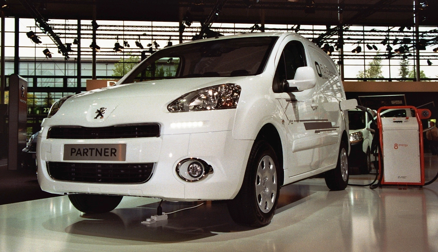 Peugeot Partner Électric Van, 49 KW dc motor, underframe-mounted lithium ion accumulator, built since 2012, photo taken at exhibition IAA 2012 in Hanover, Germany.